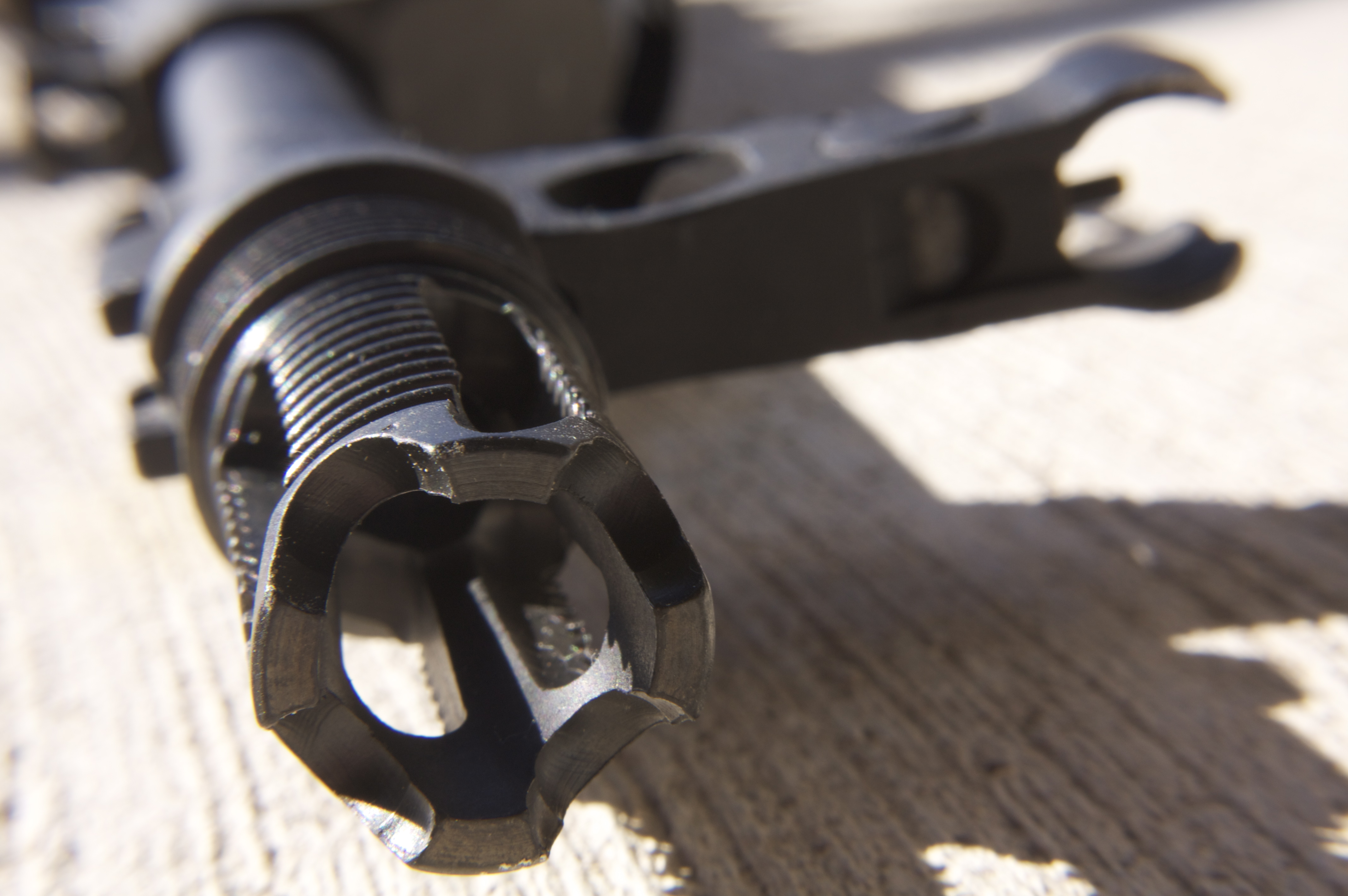 Threaded Kalashnikov Flash Hider. Made for quick attachment of Sound Suppressor.